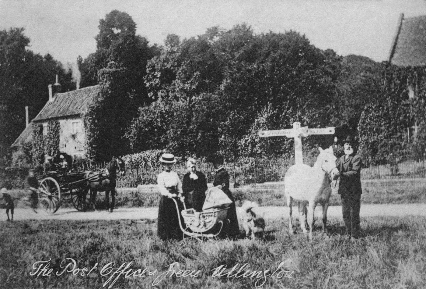 The Green and Post Office at Allington, Lincolnshire, England. Franked 1908 on a 1904-10 Edward VII stamp on reverse